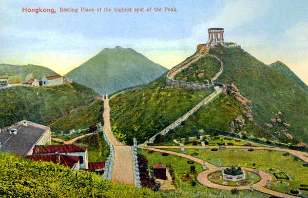 The first generation of Peak Tower (Pavilion) drawn in the 1905. It was built in 1900s and used until 1940s. The building was destroyed by the Japanese army during Second World War. The second generation was later rebuilt in the 1950.